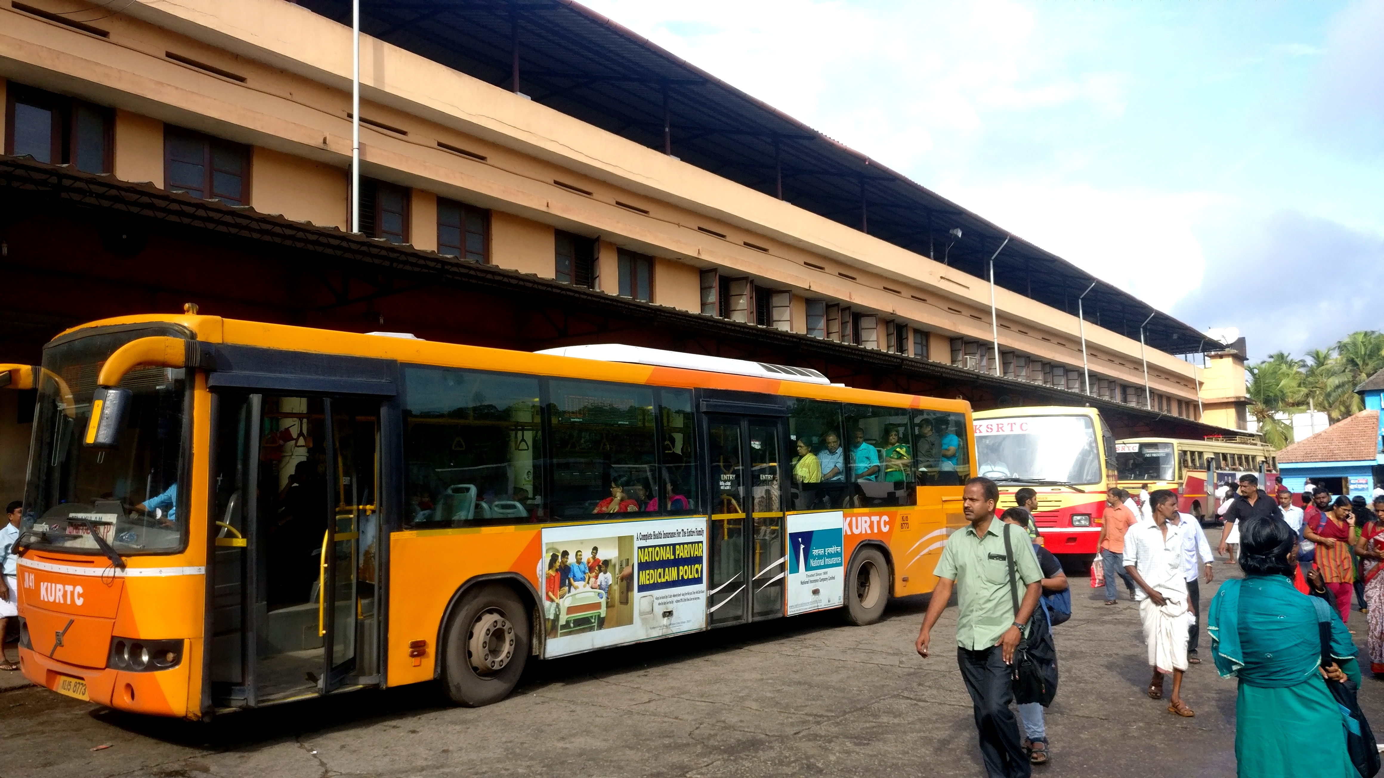 Kottarakkara KSRTC Depot. is one of the largest depots. in Kerala State, situated at Kollam district